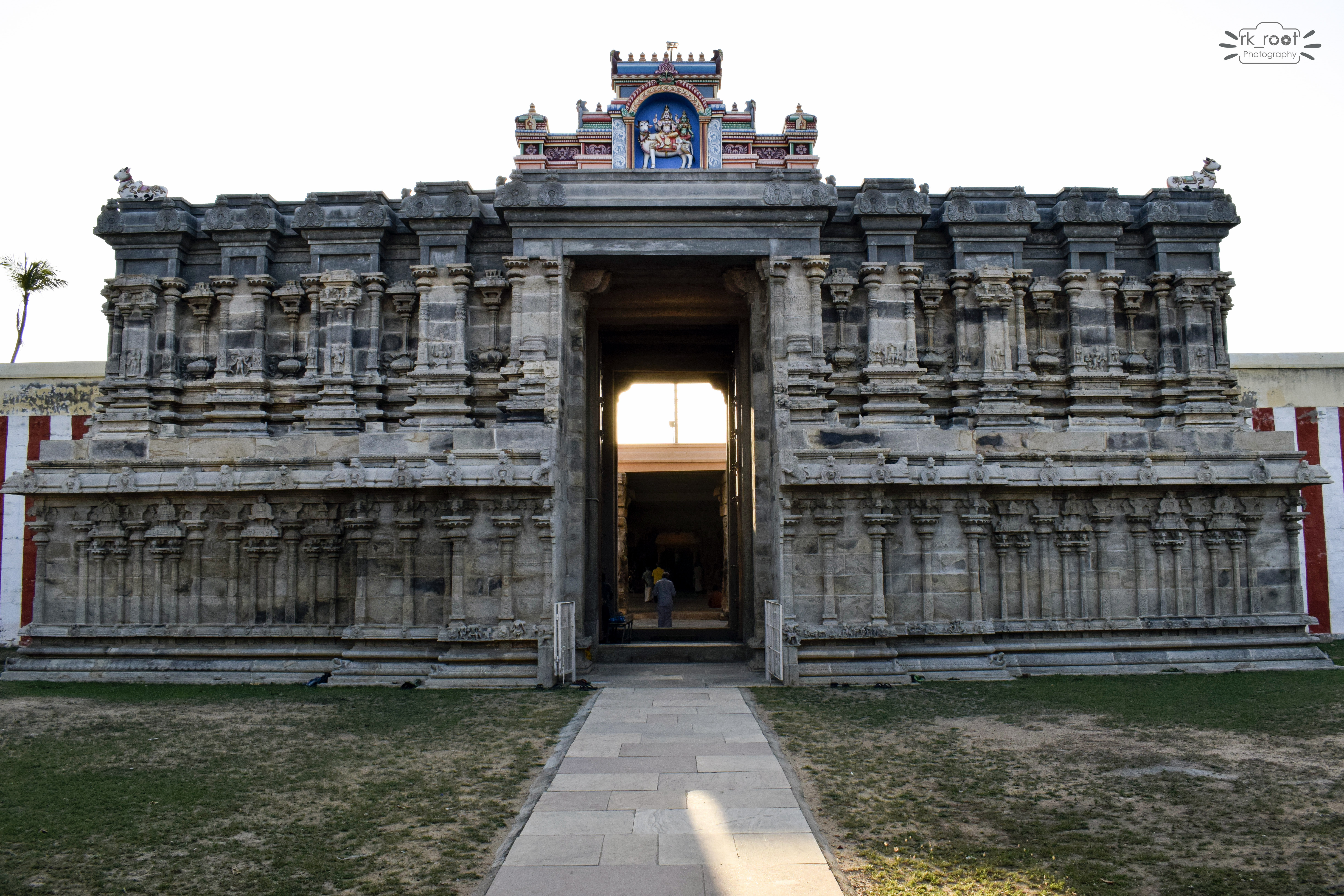 Front View of Arulmigu Kailasa Nathar Temple, Thiruvaikundam (Saneswarar Temple)